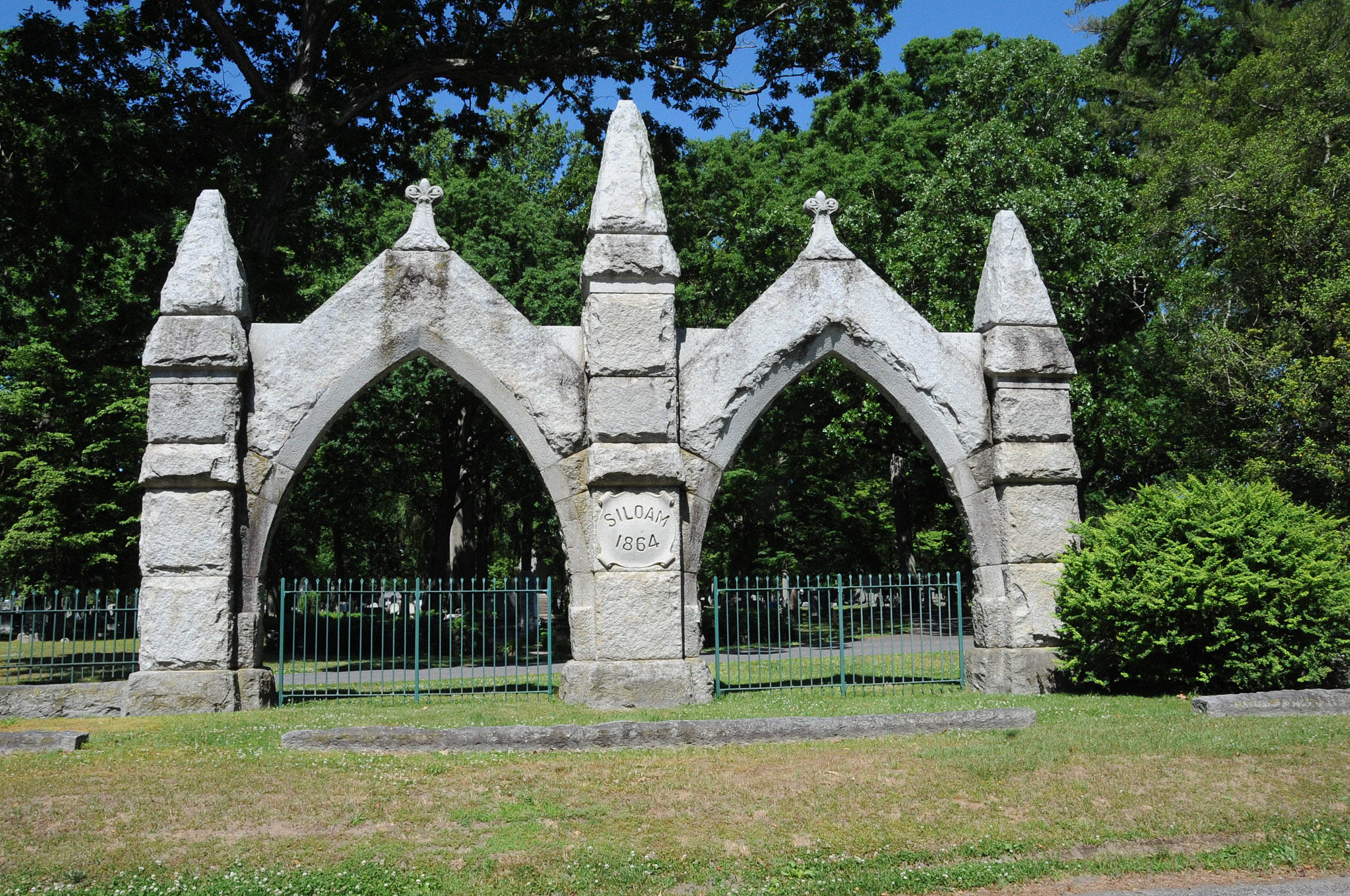 ESTABLISHED IN 1864 BY CHARLES K. LANDIS AND IS THE OLDEST IN VINELAND. LANDIS WAS THE FOUNDER OF VINELAND AND IS BURIED IN THIS CEMETERY. ALSO BURIED HERE IS THOMAS WELCH FOUNDER, AND CREATOR OF WELCH GRAPE JUICE